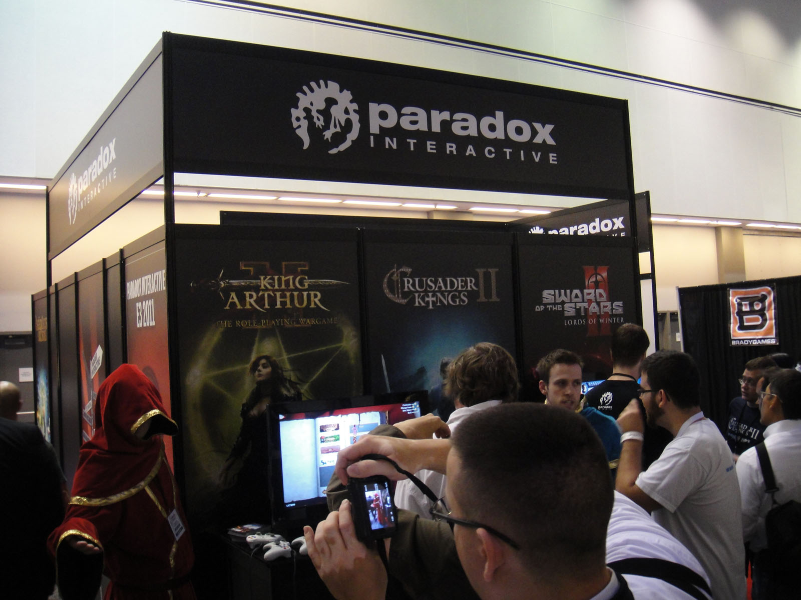 photo 2011 taken by Doug Kline If you're interested in higher resolution versions of my images, contact me via my profile page.